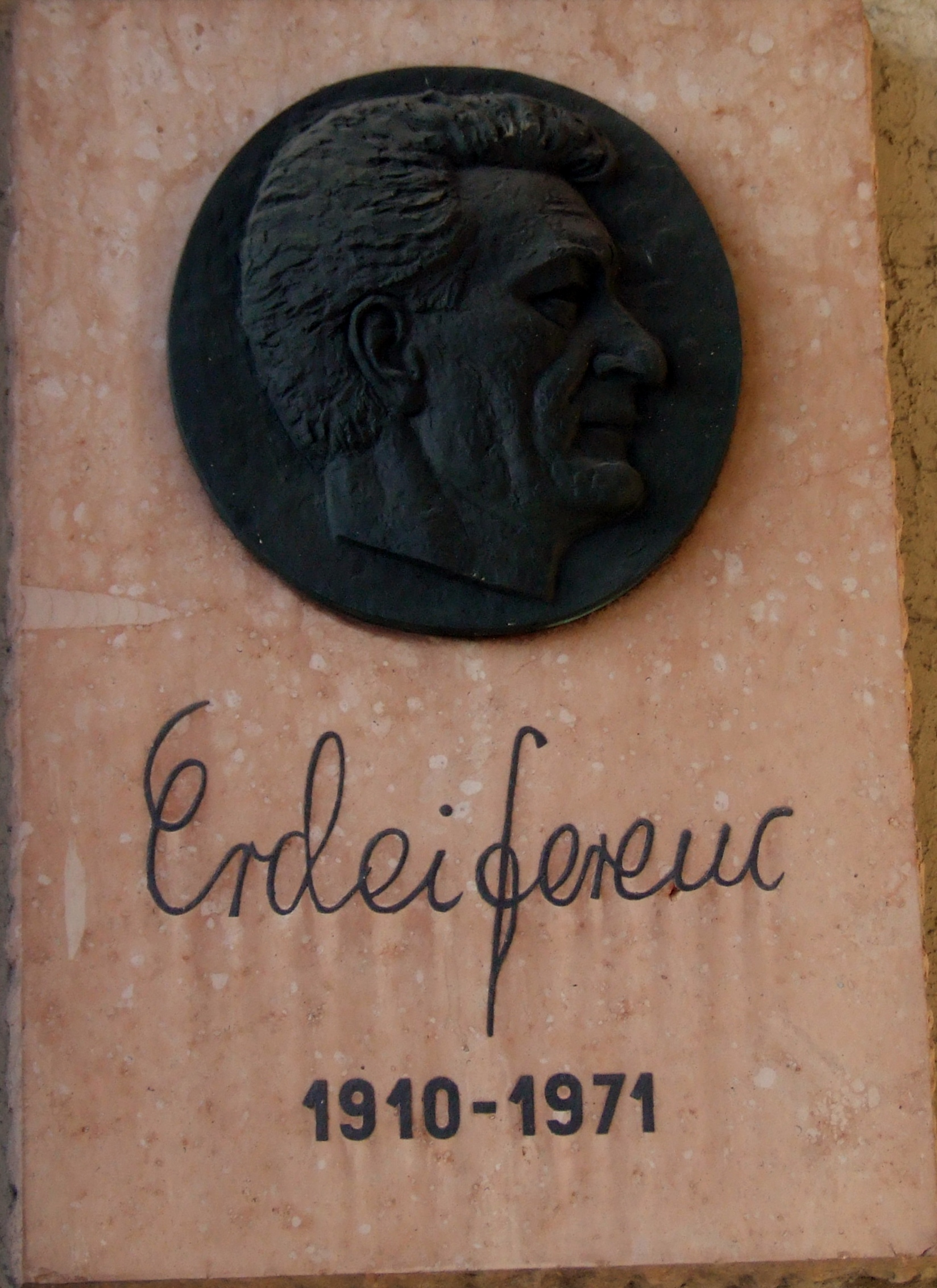 Ferenc Erdei commemorative plaque with relief in Budapest District V, Kossuth Square No 11